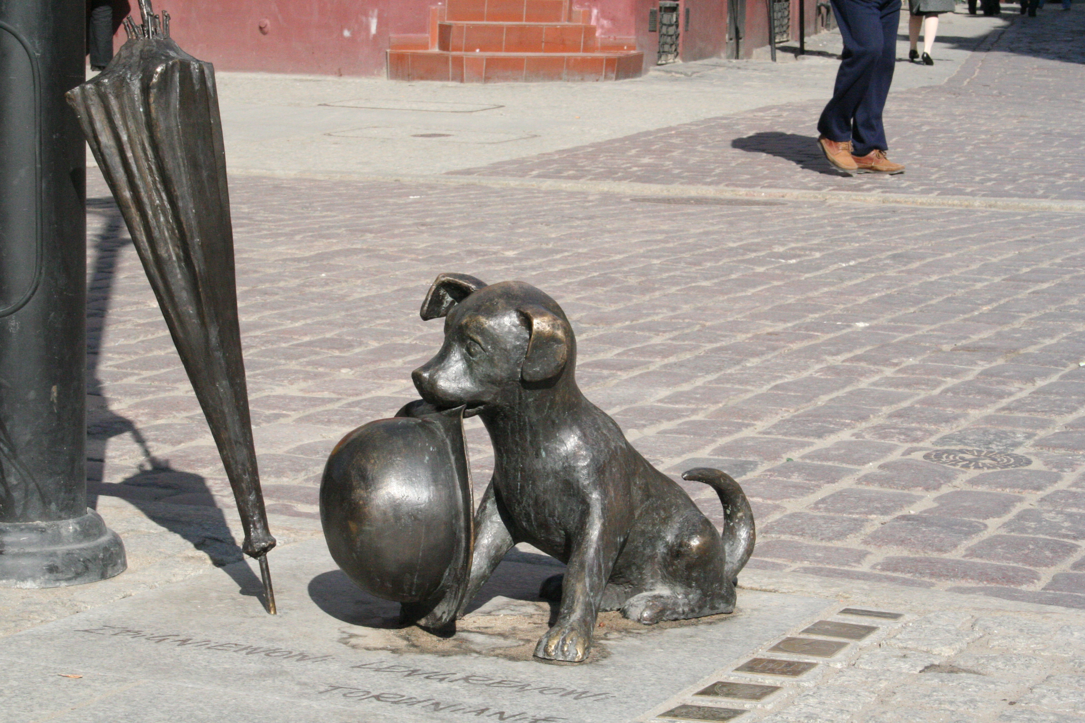 Monument of Filus at the Old Town Market in Toruń, Poland. (Filus is a fictional dog created by Polish cartoonist Zbigniew Lengren.)